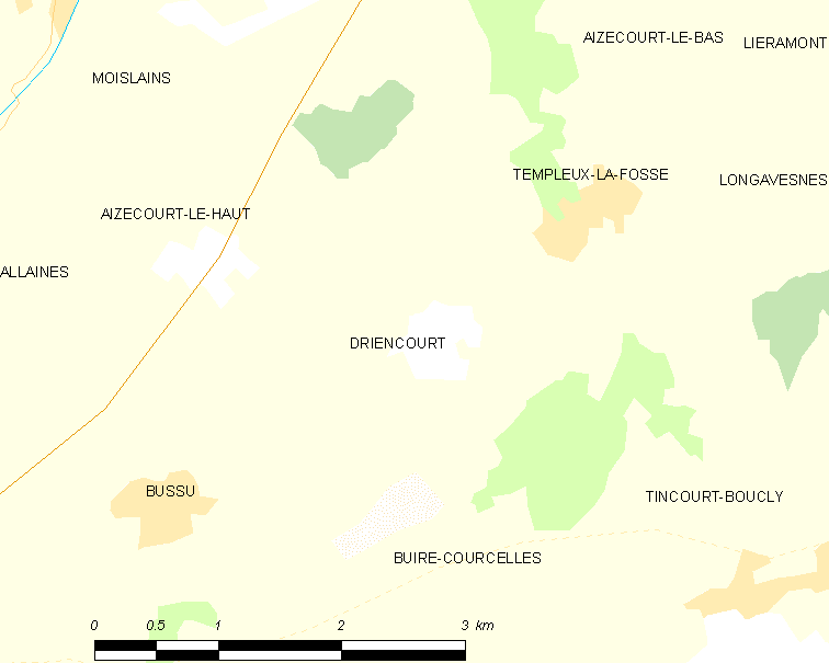 Map of French municipality Driencourt